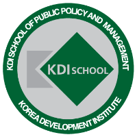 KDI logo